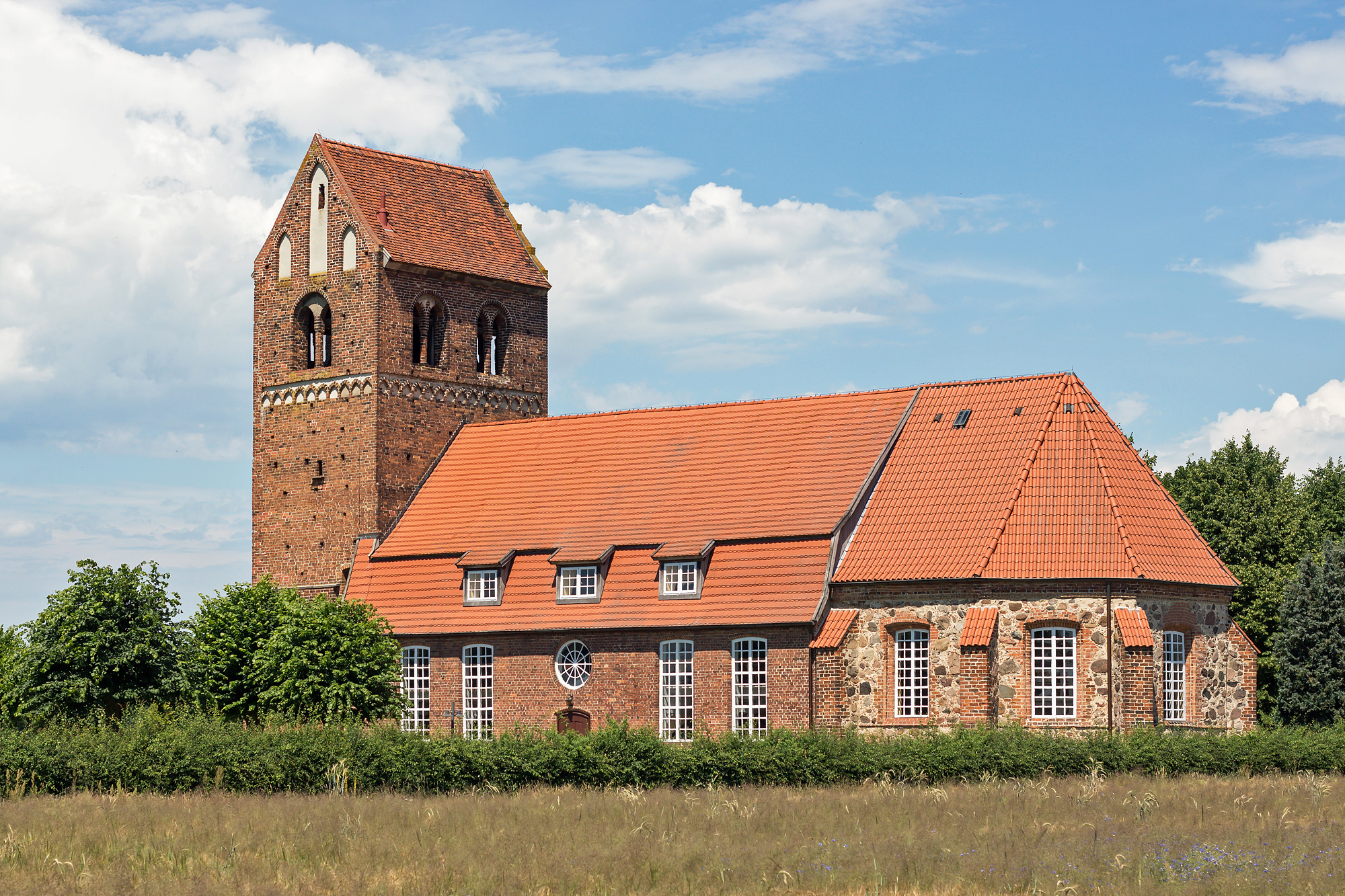 The church "Hohe Kirche" in the landscape "Lemgow", Wendland, northern Germany.